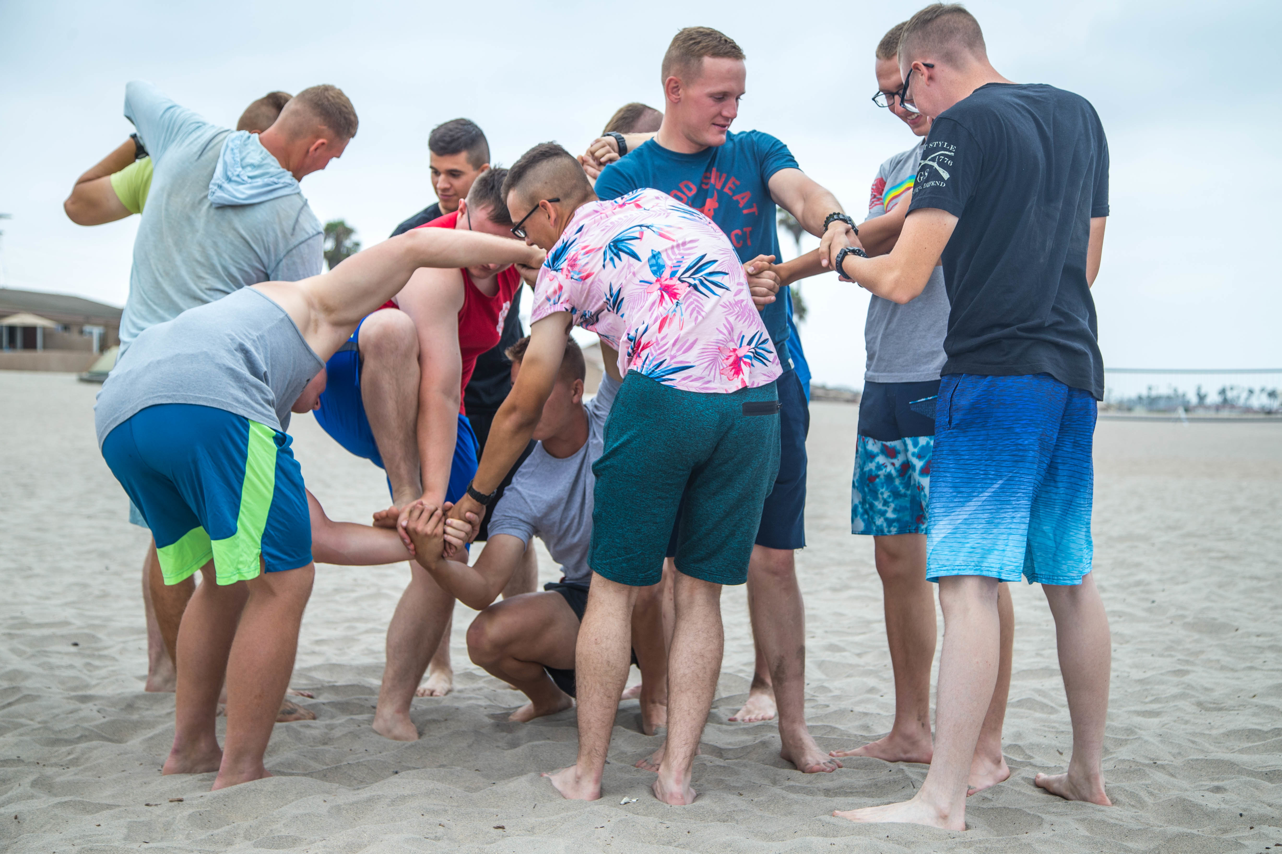 U.S. Marines, Sailors and civilians participate in “the human knot,” a team-building activity, during the 21 Area Mentorship Workshop Program at Del Mar Beach Resort at Marine Corps Base Camp Pendleton, California, Aug. 2, 2018. The 21 Area Mentorship Workshop Program focused on the different elements of teamwork in the work environment. (U.S. Marine Corps photo)